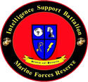 Logo for USMC Intel Support Battalion